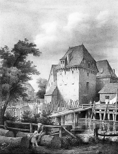 The Water tower 1835 in Hanover. Lithograph by Rudolf Wiegmann.